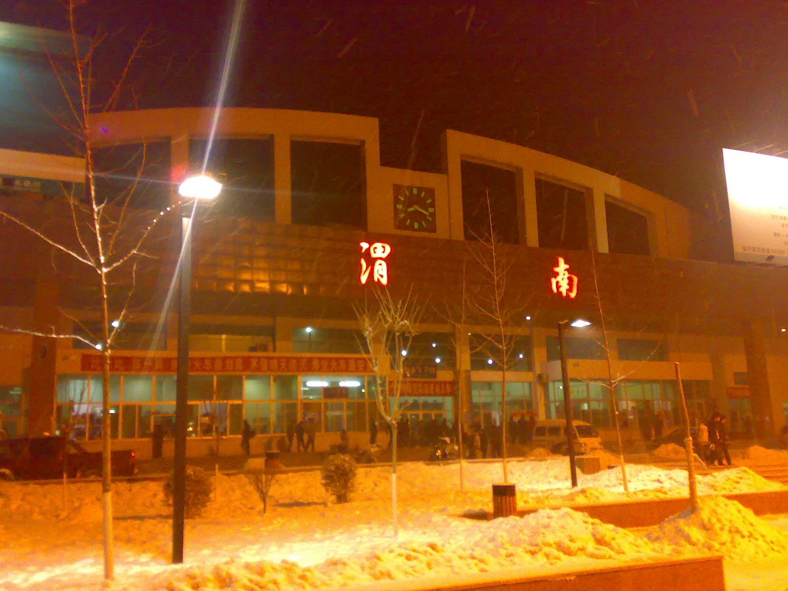 Weinan Railway Station